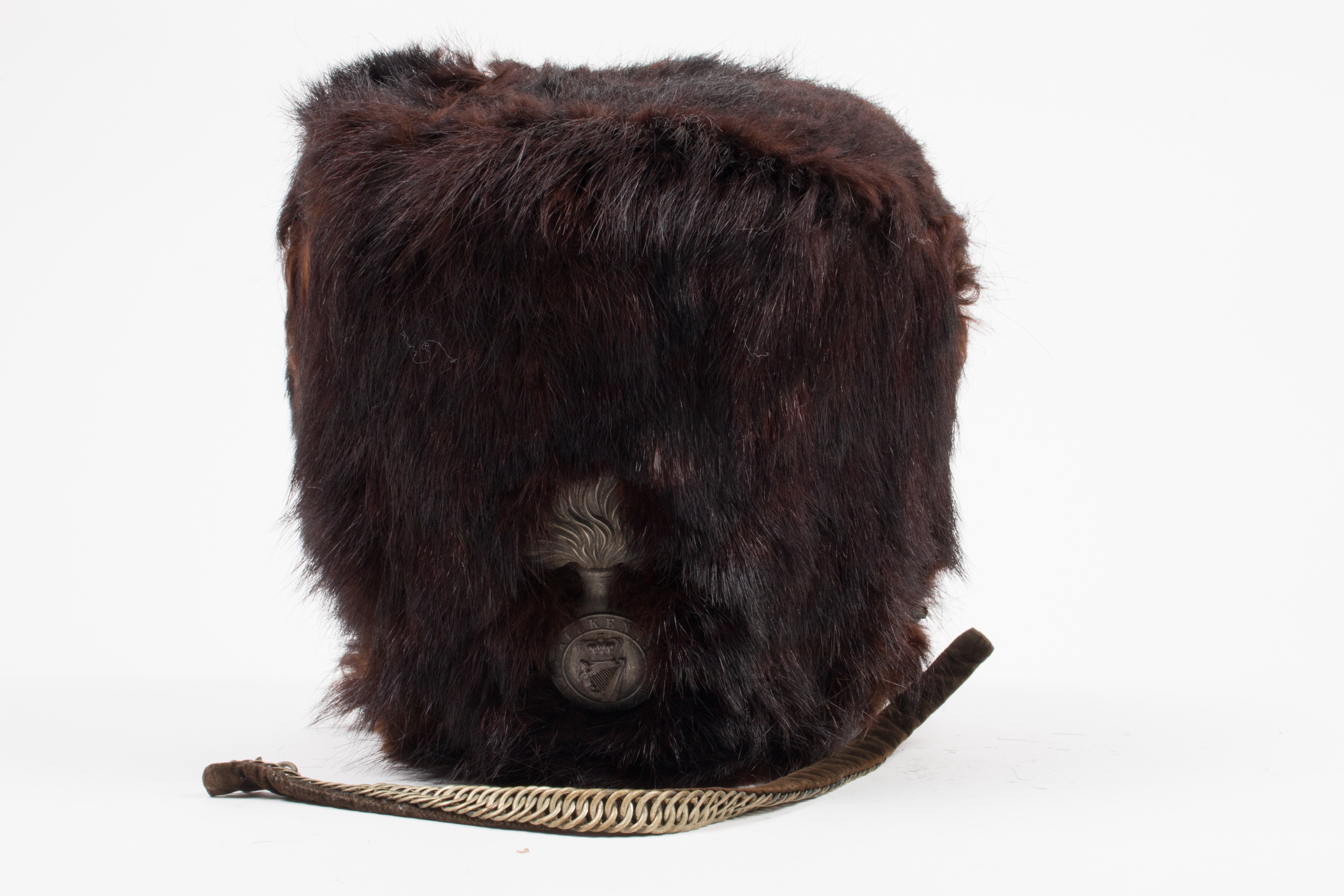 Bearskin hat, Lt. Col. Charlton Dawson, 18th Royal Irish - Kilkenny Fusiliers bearskin hat; metal chin strap;; badge with KILKENNY FUSILIERS around crowned harp with figure